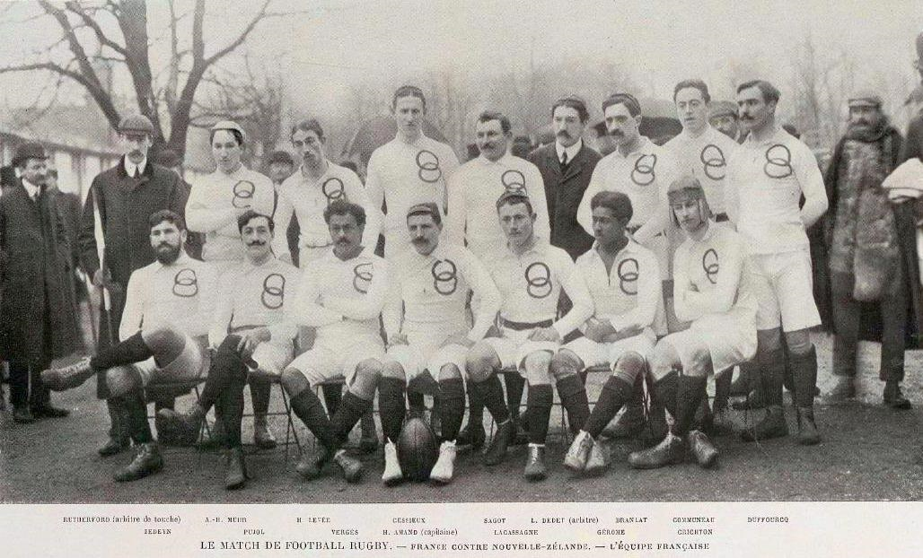 France national rugby union team that played New Zealand at Stade Colombes.